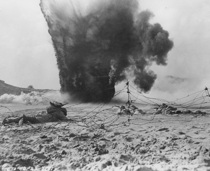 Invasion Training in England - Training with live ammunition